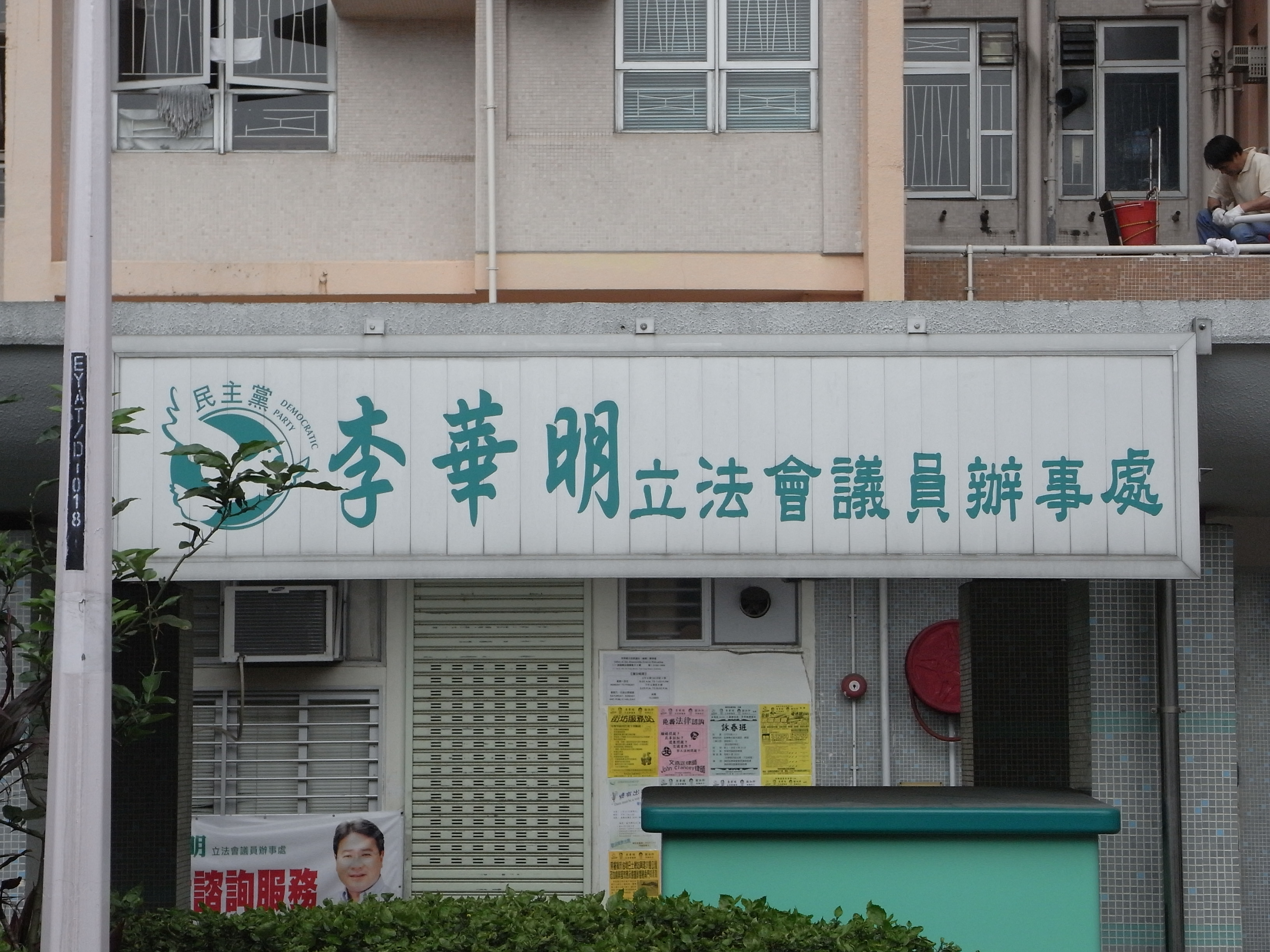 油塘 李華明 香港立法會議員zh:辦事處